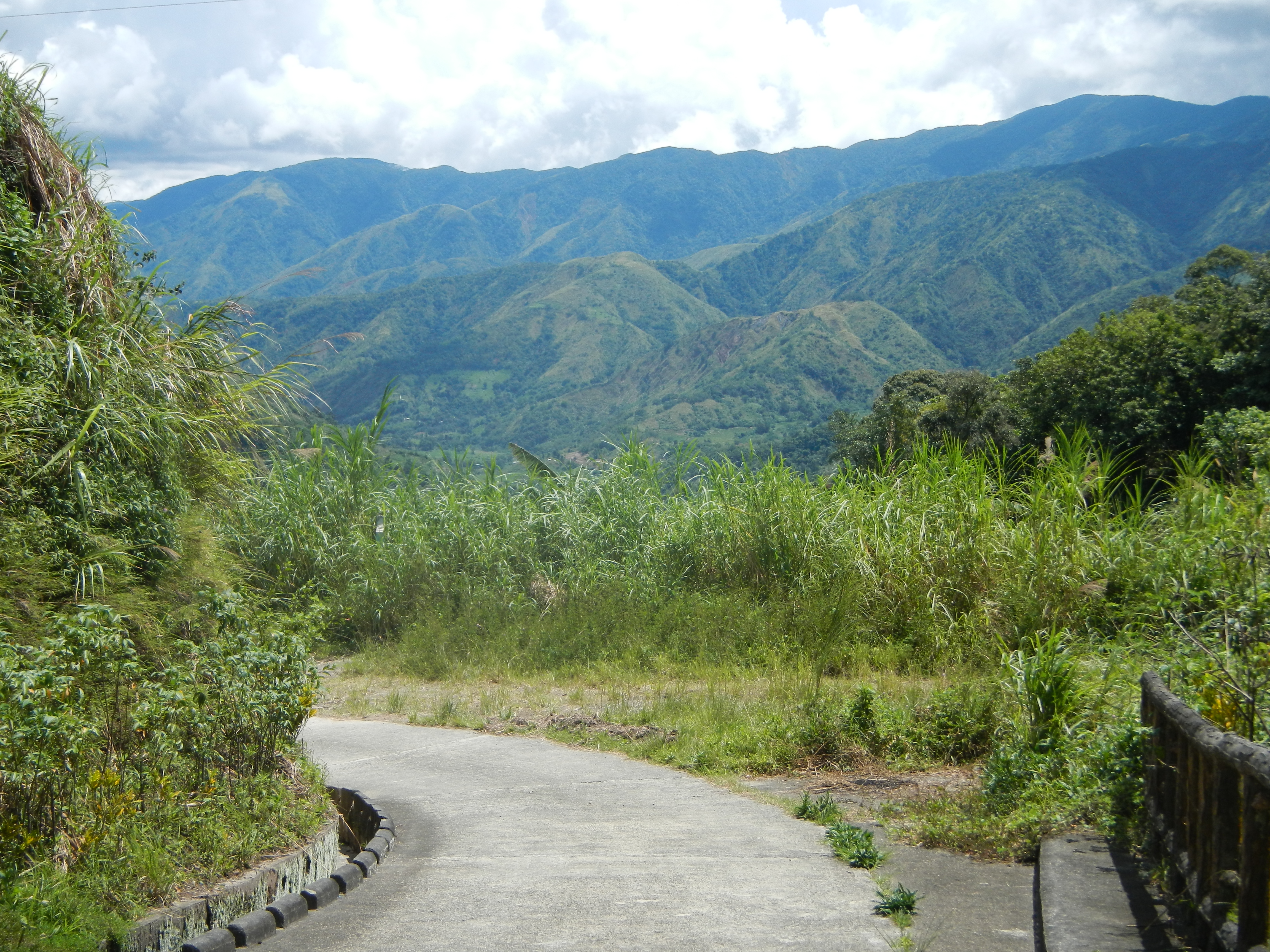 UploadWizard photos -- (General description, 3-dimension angle by angle photography of this town, church & landmarks) -- Mimosa pudica[1] at the Battle of Balete Pass - Dalton Pass[2] Tourism Complex and View Deck, also called Balete Pass, is a zigzag road that joins the provinces of Nueva Ecija and Nueva Viscaya, Philippines. It is located at about 3,000 feet above sea level, where Caraballo Sur [3] meets the Sierra Madre. Being the only access between Central Luzon and Cagayan Valley, the pass became the scene of much bloody fighting during the final stages of World War II and bore witness to the death of almost 17,000 Japanese, American, and Filipino soldiers. It has a national shrine that gives honor to General James Dalton II [4] Congress approves Balete pass national shrine House bill number 3303 - Proclamation No. 653, the Battle of Balete pass commemorated from May 10 to 13, Balete Pass national shrine shall be under the military shrines service of the Philippine Veterans Affairs Office (PVAO).Memorial Balete , Dalton Pass [5] [6] [7]